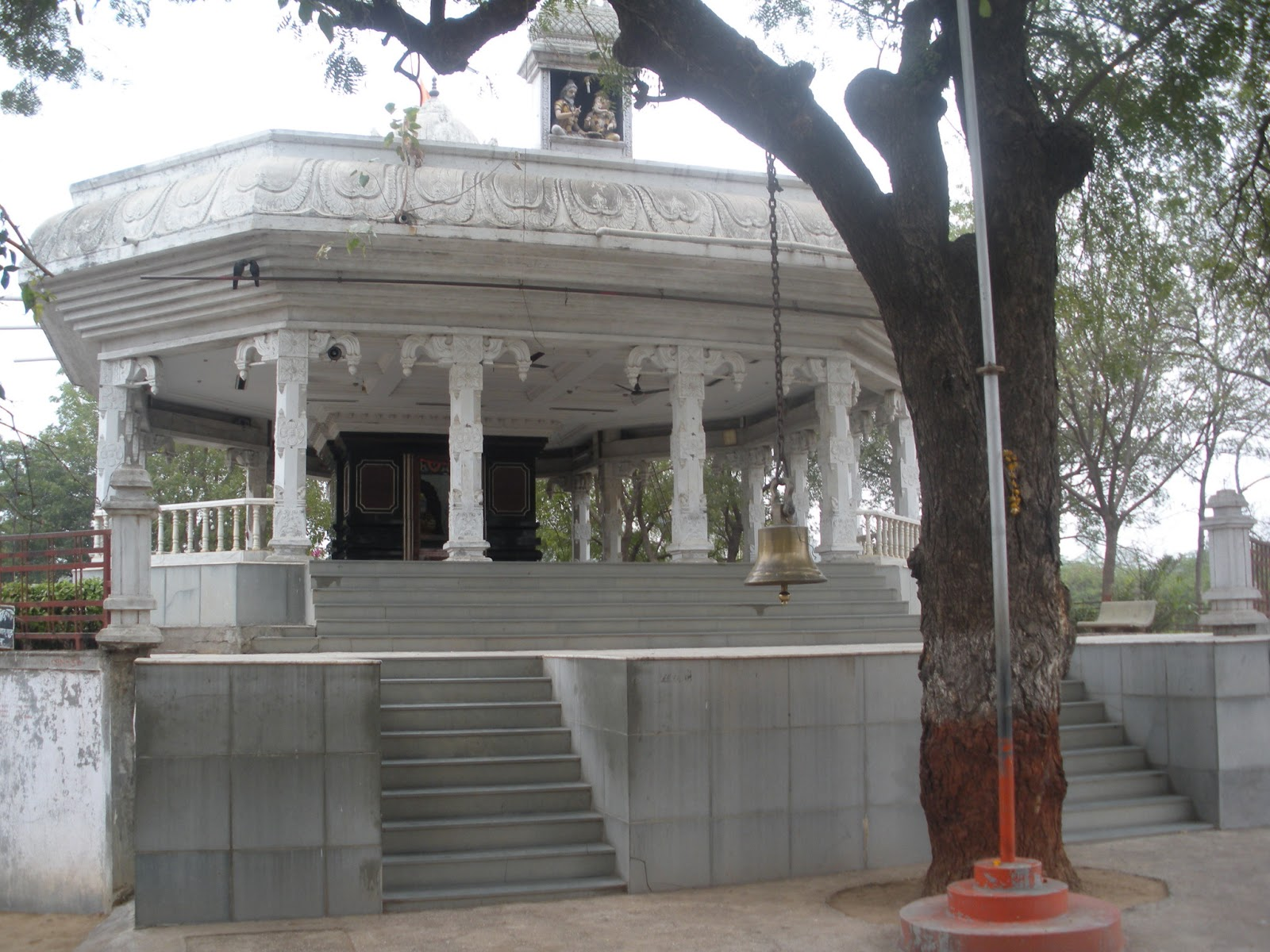 Ancient Mahashir Vyas Mandir